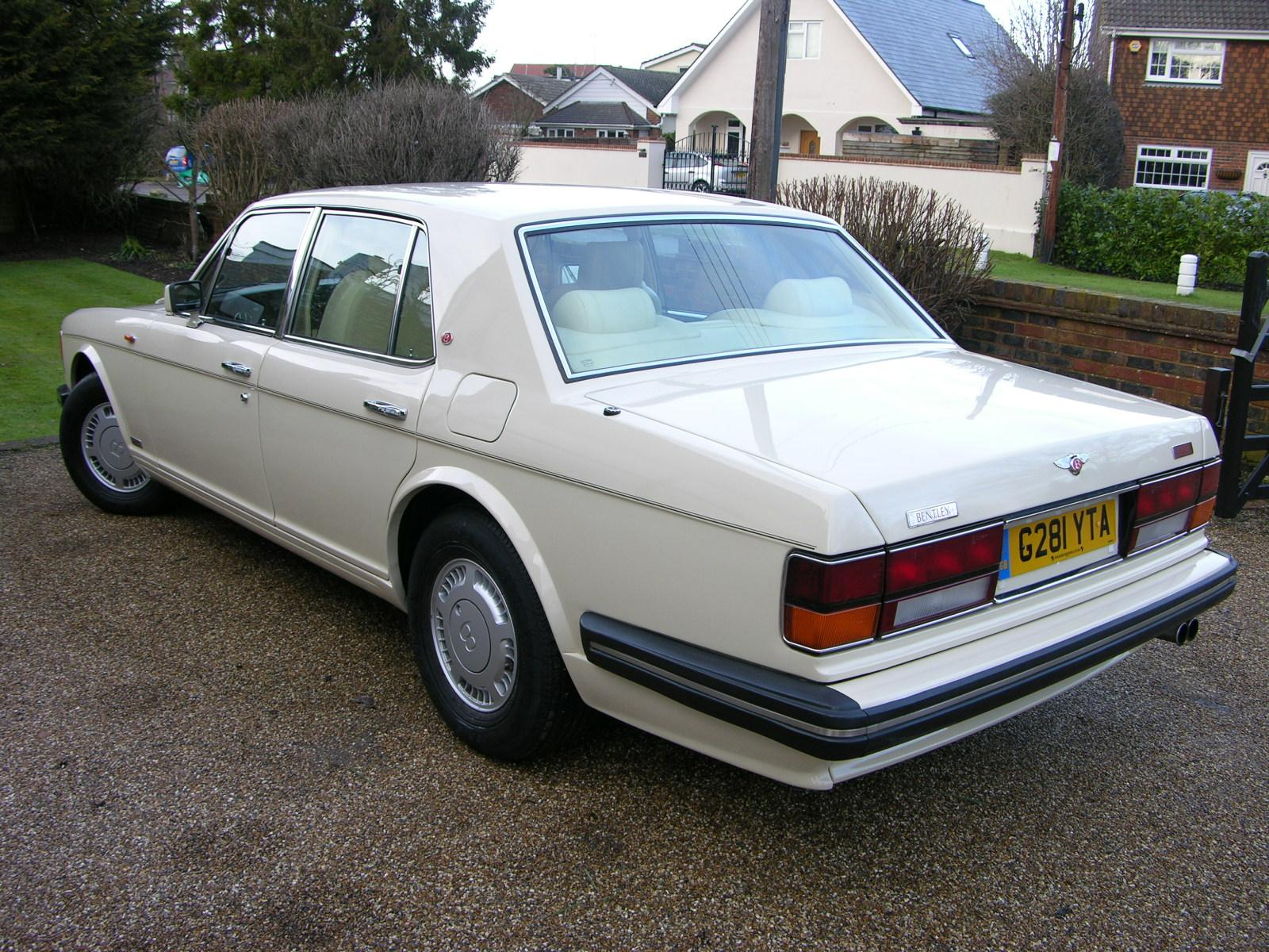 1990 Bentley Turbo R